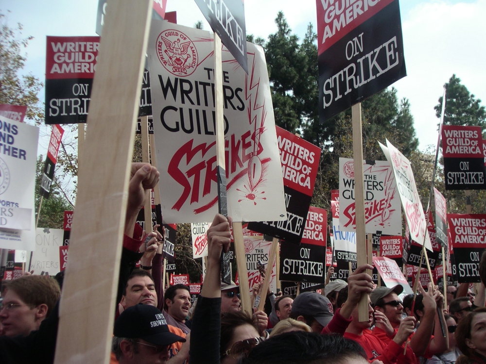 I took this picture myself at the WGA rally in Culver City on Fri, Nov 9 2007 and I am releasing it to the public domain. Have fun, world.